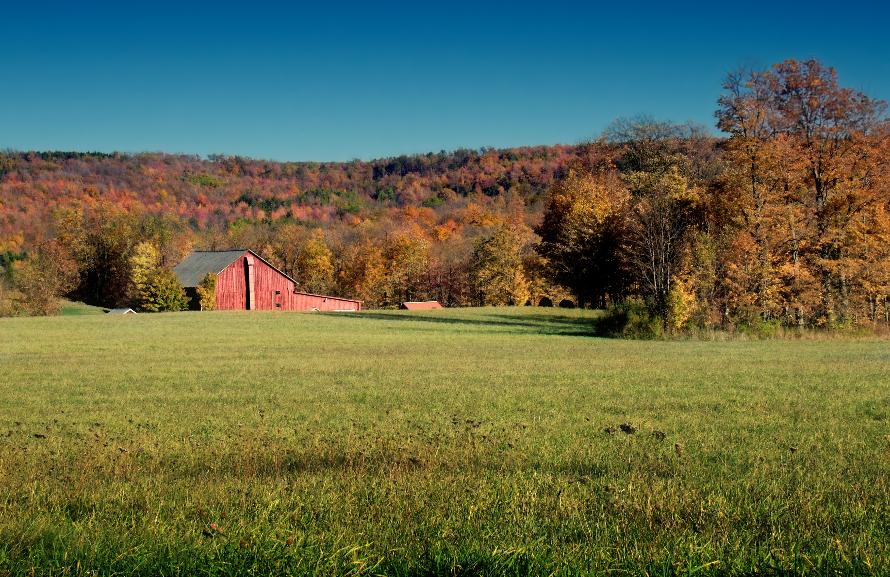 Late-day light, Cherry Township, Sullivan County.